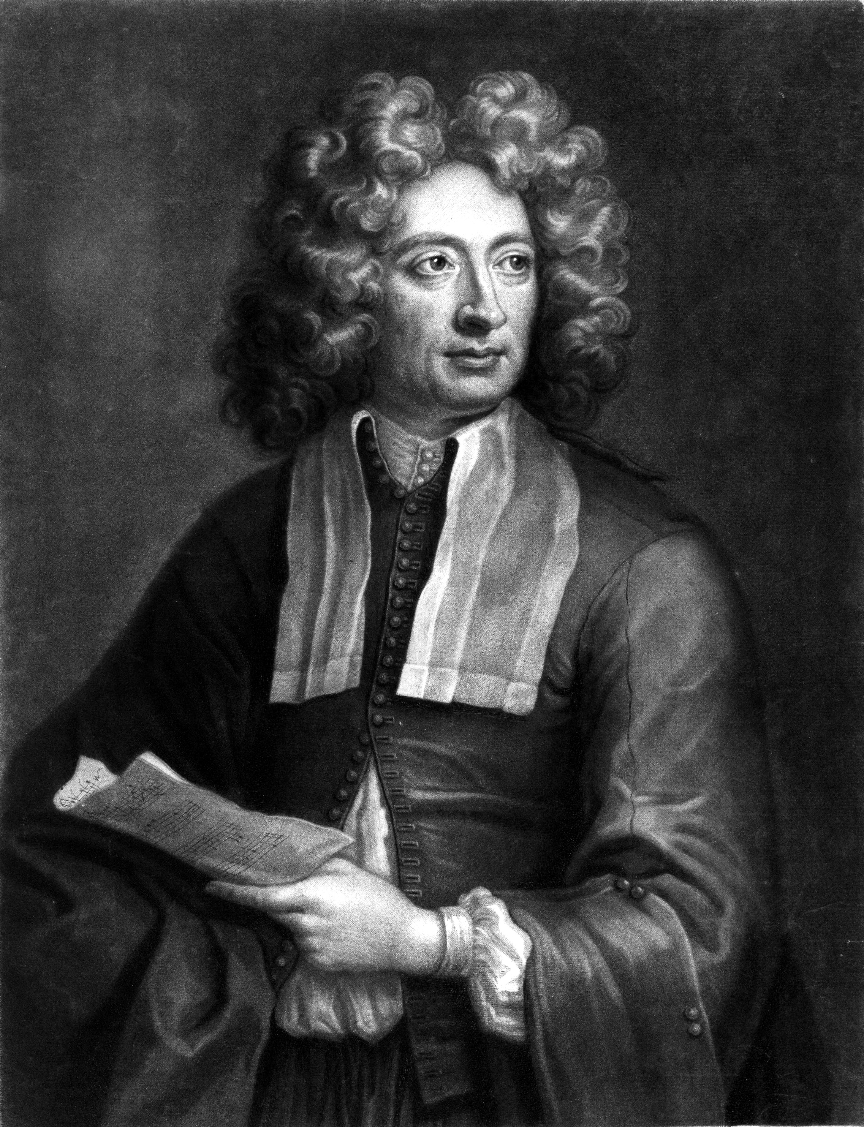 Depicted person: Arcangelo Corelli